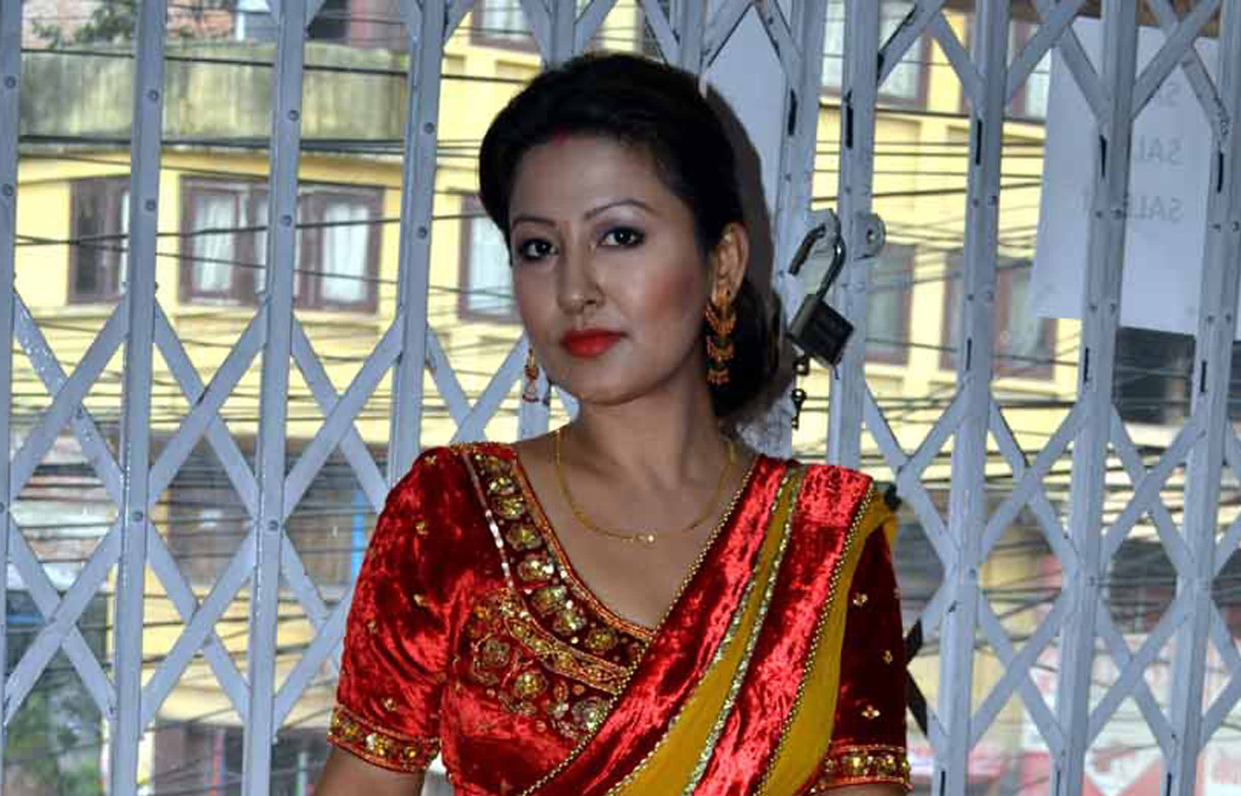 Usha Khadgi croped for profile picture.